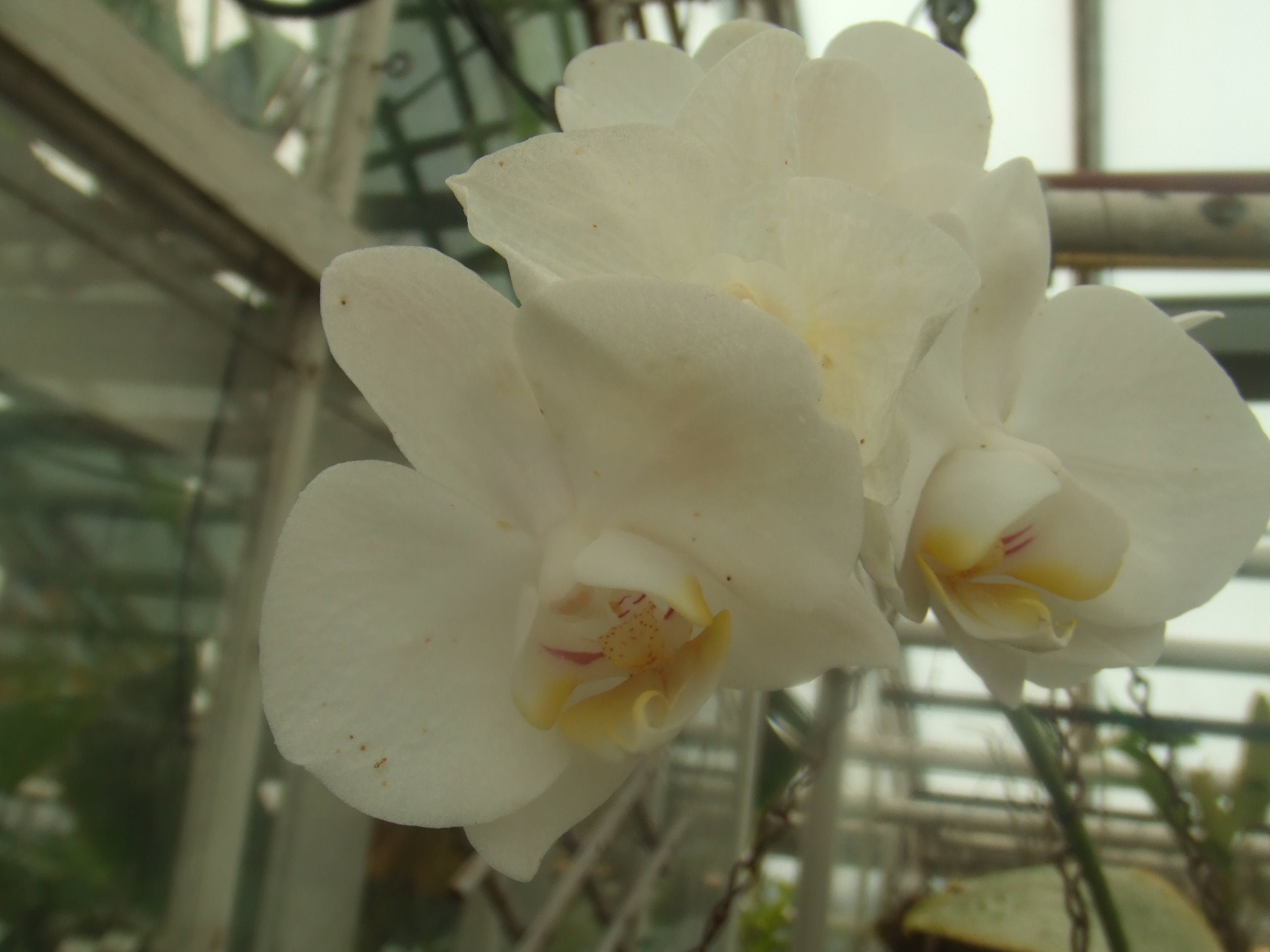 Phalaenopsis amabilis, picture taken at the Botanische tuin TU Delft in Delft, The Netherlands